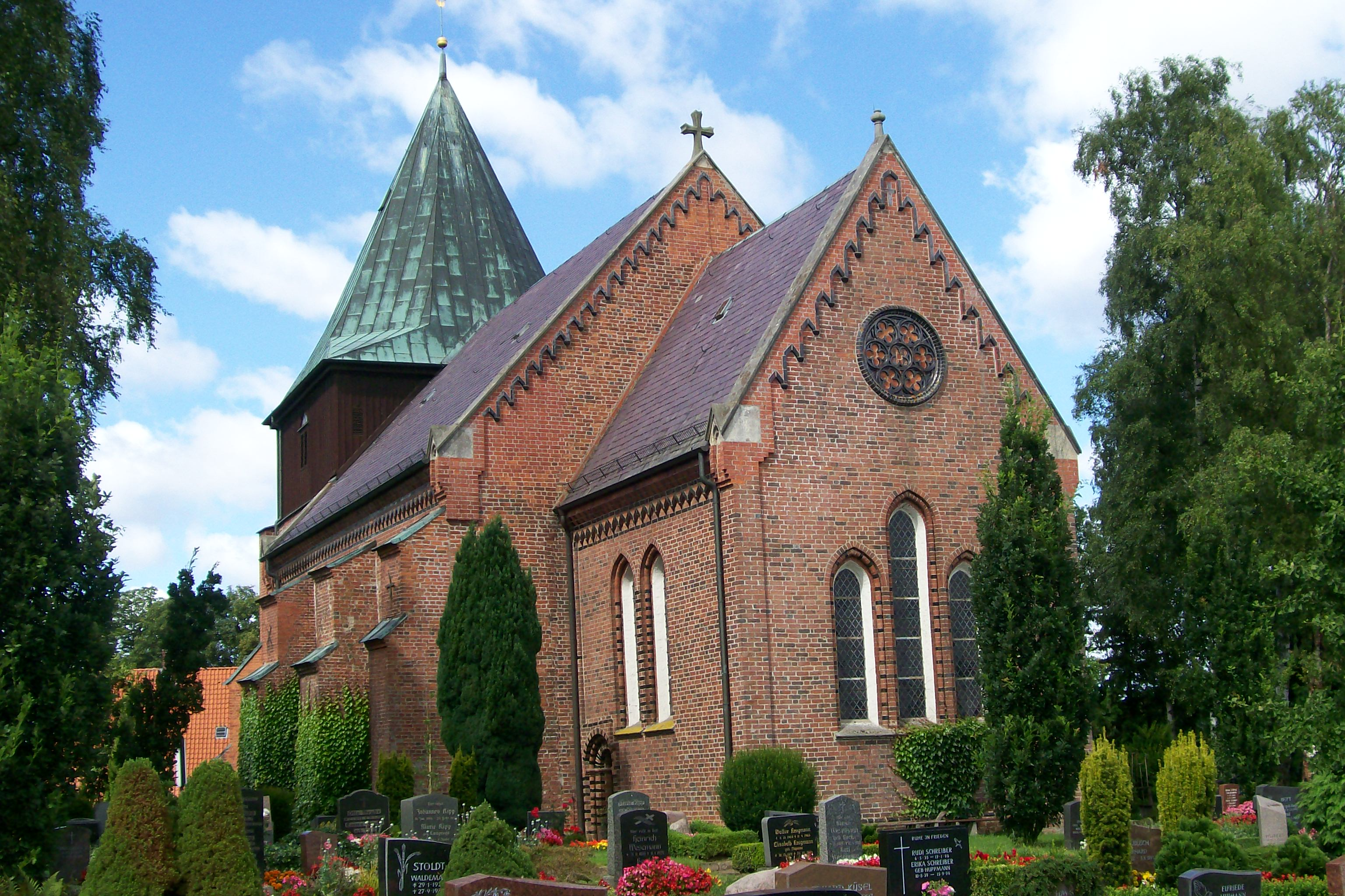 Brick-gothic St. Johanniskirche (Krummesse) from 1230 in Krummesse, a village in Schleswig-Holstein (Germany) which partly belongs to Lübeck, partly to Kreis Herzogtum Lauenburg